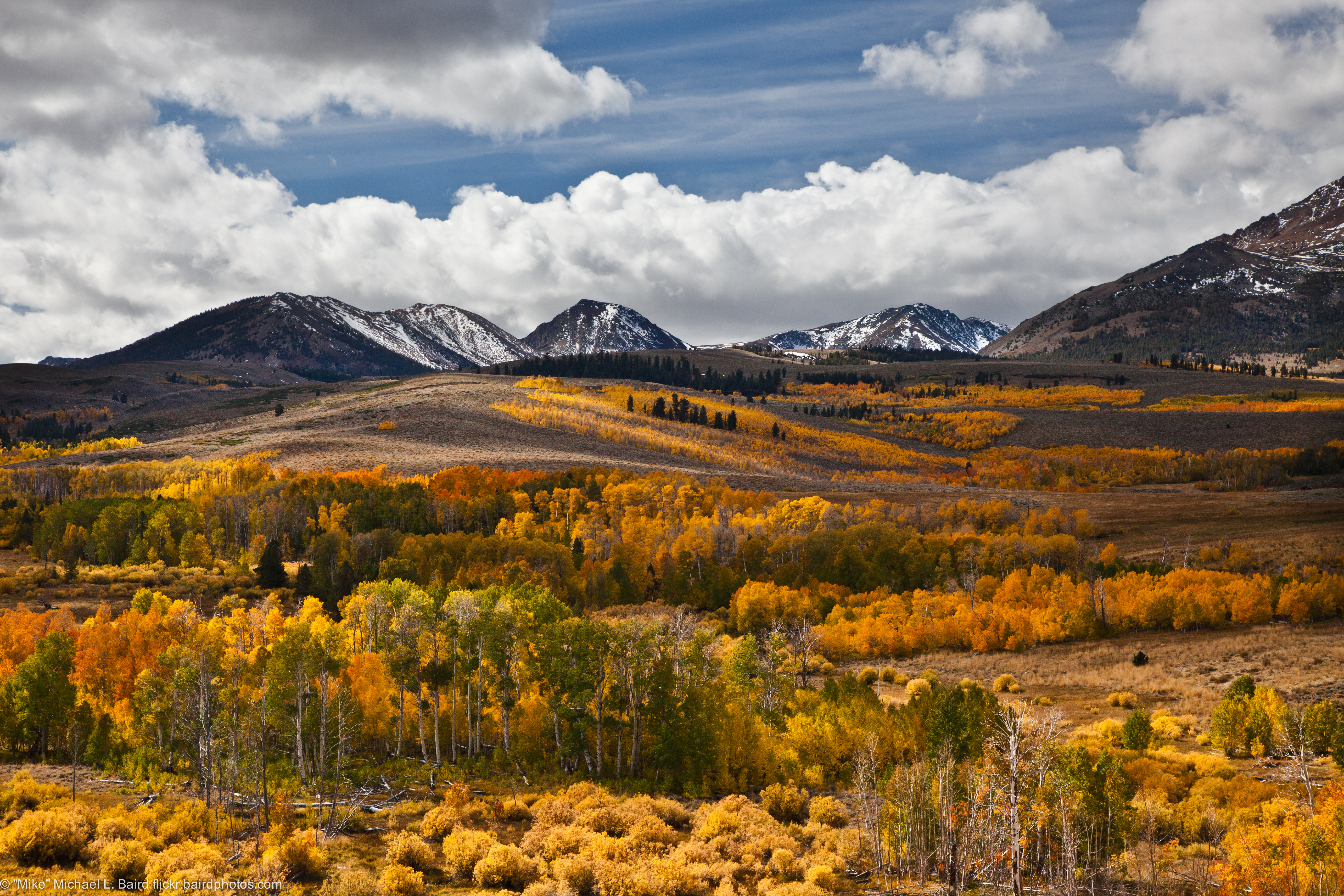 Aspen Tree Fall Yellow Color off Tioga Pass and Conway Summit north of Lee Vining CA off Virginia Lake Road.